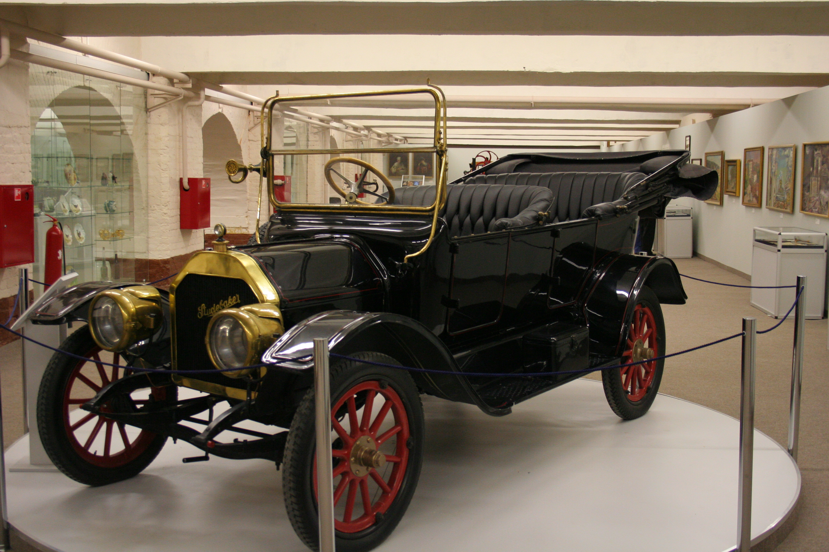 A Studebaker-Garford in the Museum of Moscow